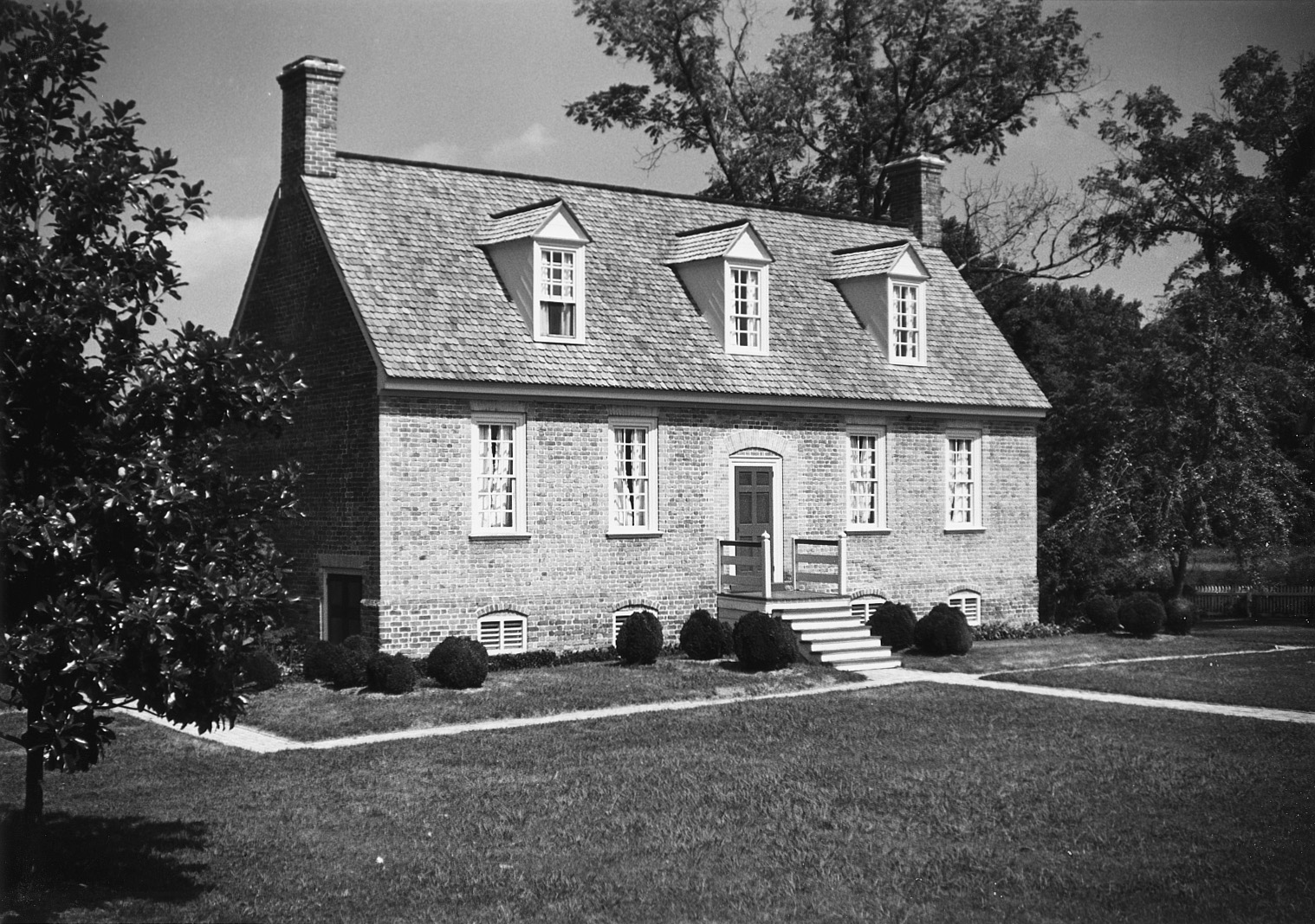 Smith's Fort Plantation front elevation, from United States Department of the Interior, National Register of Historic Places nomination form